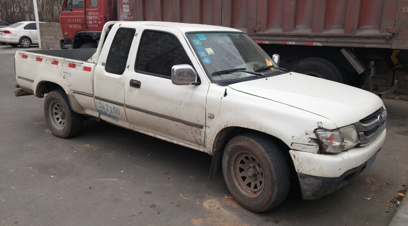 Great Wall Deer facelift photographed in Yinchuan, Ningxia province, China.